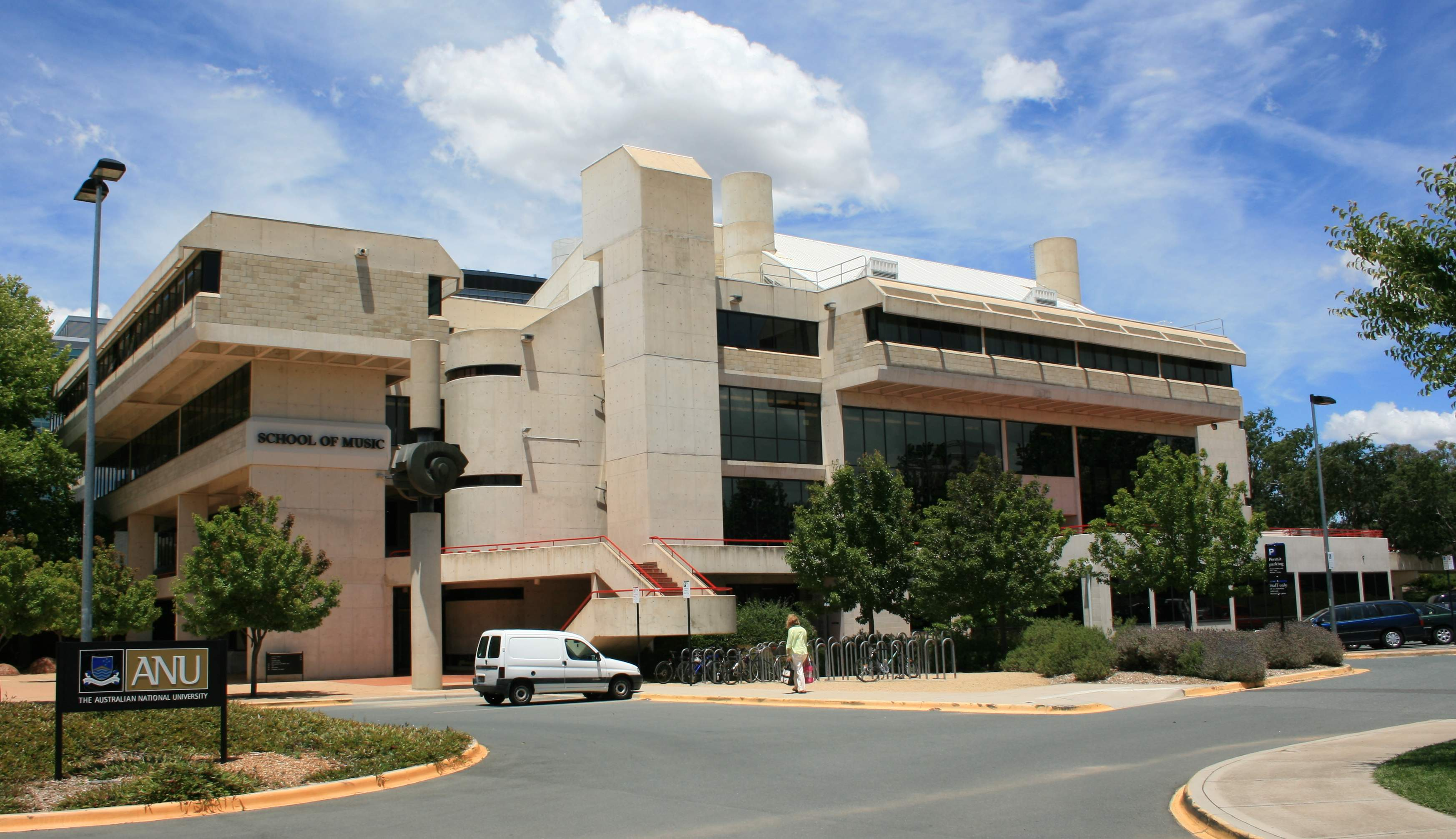 Australian National University School of Music main building/classical building/old building front view, showing carpark, sign, artwork, bridge. Extended Column (1972-1975) is a bronze and cement sculpture by Norma Redpath.